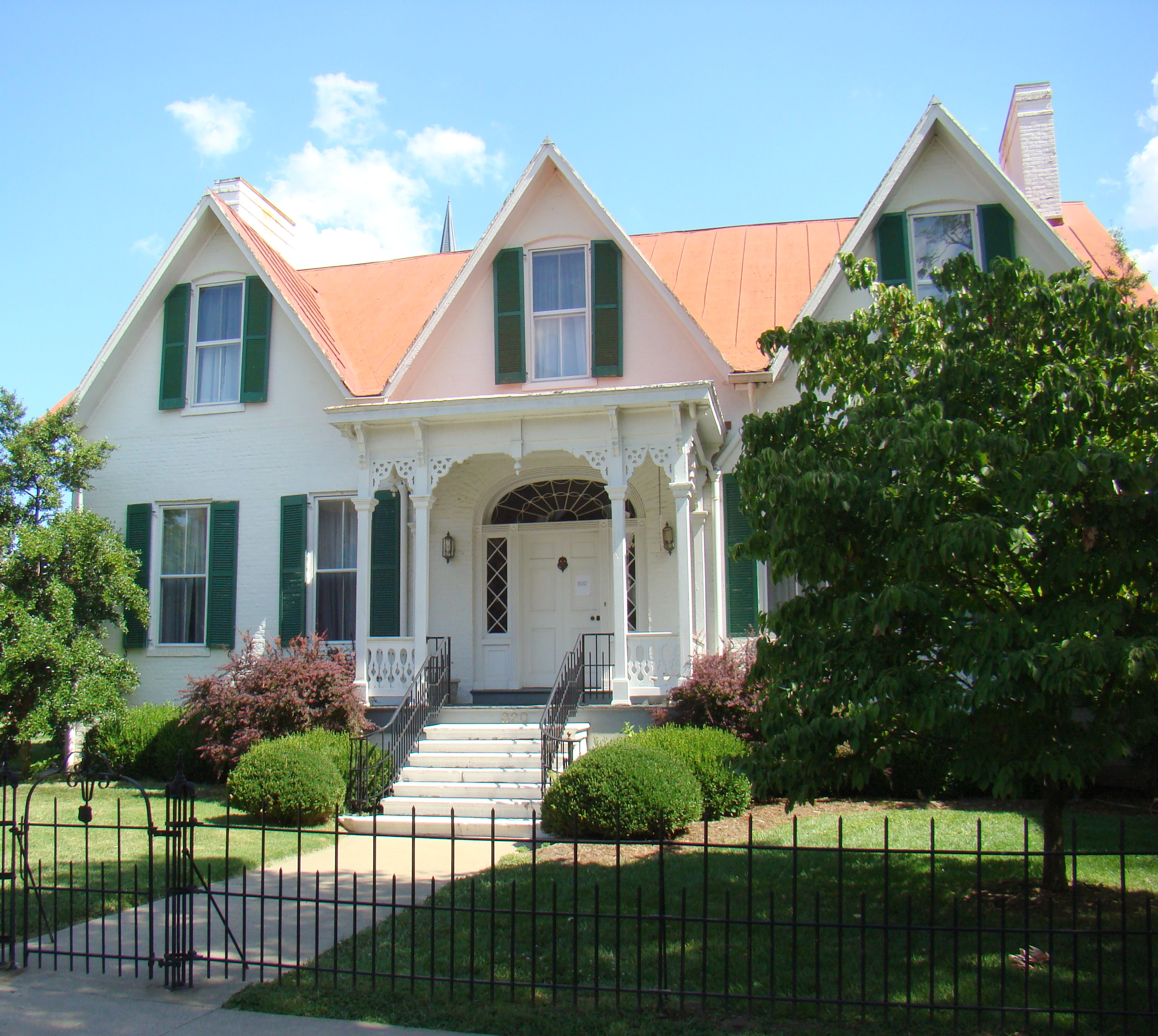 The Thomas Todd House is located in the Corner in Celebrities Historic District in Frankfort, Kentucky. The property was added to the US National Register of Historic Places in 1976.